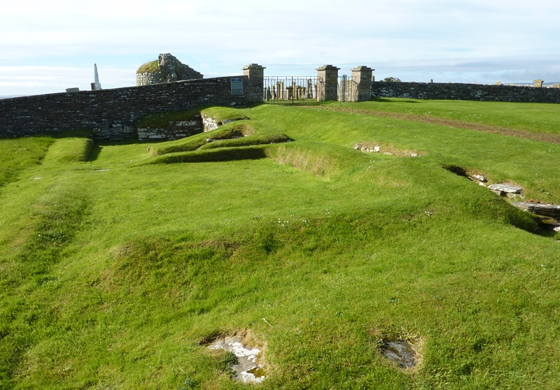 Earl's Bu, Mainland, Orkney, Scotland. View from north.